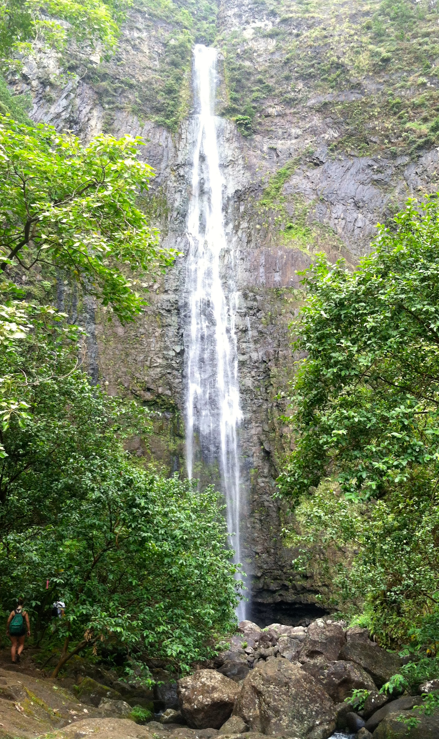 Hanakapiai Falls as taken on an iphone while hiking.